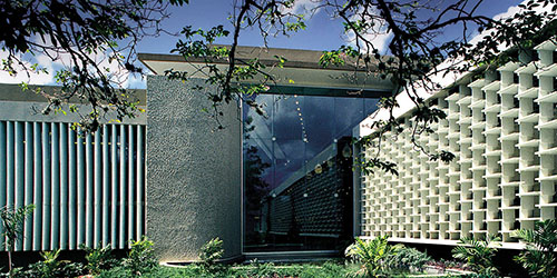 Copyright © 2018 Max Toro Mattei. Original building on the right designed by german architect Henry Klumb. Expansion to the left designed by Segundo Cardona FAIA of SCF Architects.